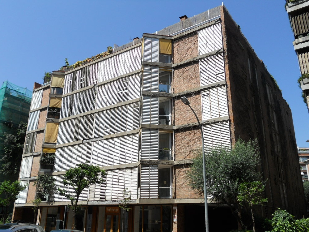 Catasús building, in Barcelona (Catalonia). Josep Antoni Coderch de Sentmenat and Manuel Valls Vergés (1958-61)